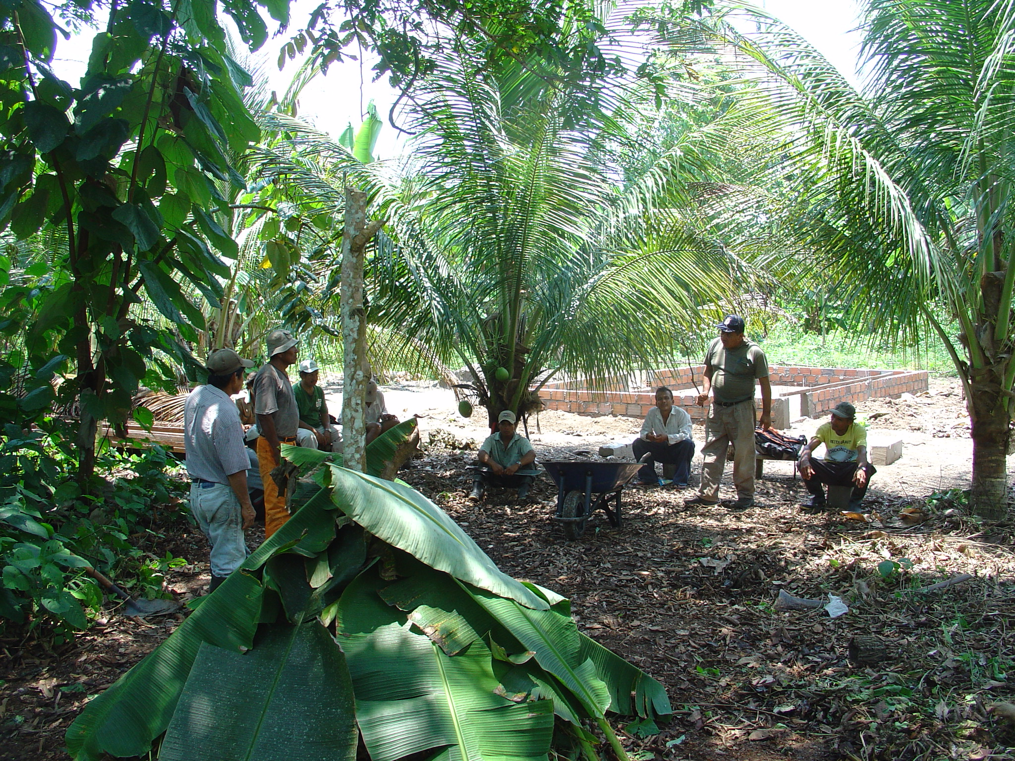 The compost pile covered by banana leaves embeded on banana stalks, with the pale in the middle. Ecuador composting method, Santa Tereza, Ucayali, Peru.